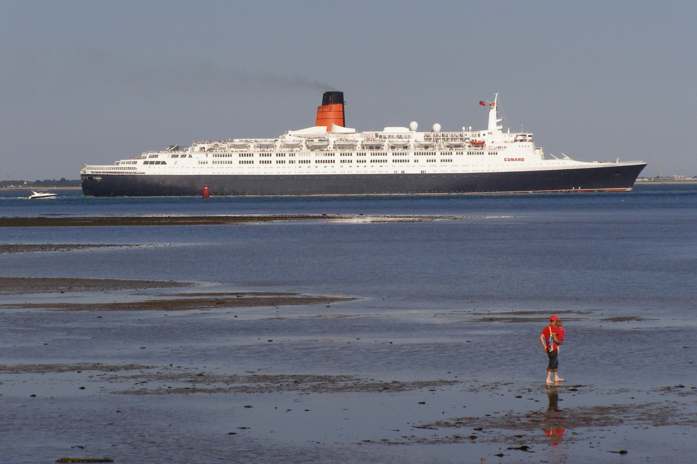 RMS Queen Elizabeth 2 leaving Southampton Water into the Solent.